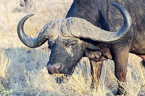 An African buffalo (Syncerus caffer) in die Kruger National Park in South Africa.